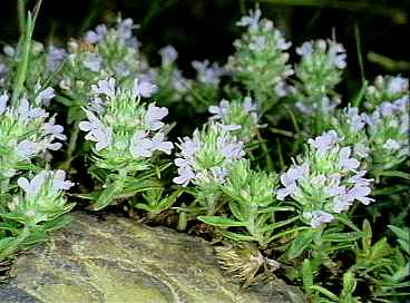 Sicilian botanical endemisms Thymus spinulosus